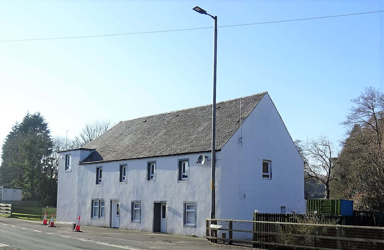 Minishant old Waulk Mill, South Ayrshire, Scotland. Blankets were manufactured here. It became the village hall.